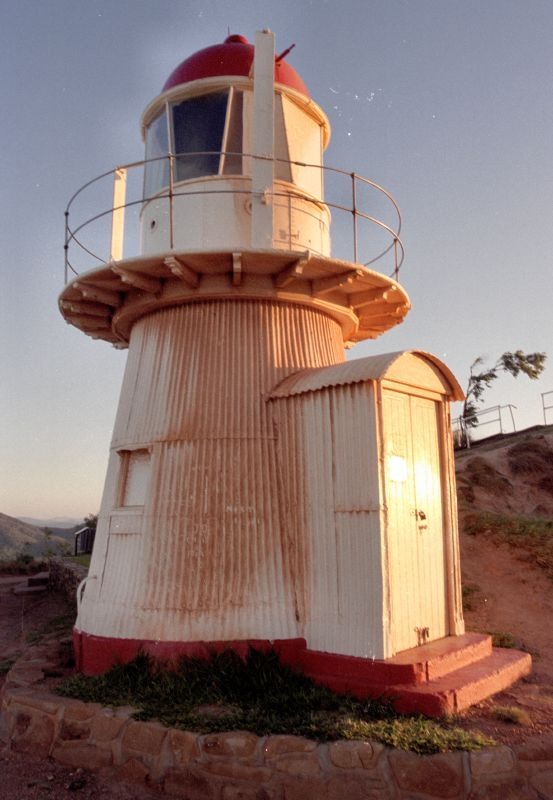 Cooktown Lifghthouse, 2005 The Cooktown Lighthouse is situated on Grassy Hill (300m above sea level). It is an automatic light now, but was once manned. The lighthouse is an historic feature of Cooktown. It was built in England, transported to Cooktown, and erected in 1885. It was automated in 1927 and was complemented by a Radar station during 1942-5.